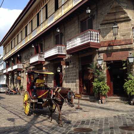 Kalesa inside the walled city